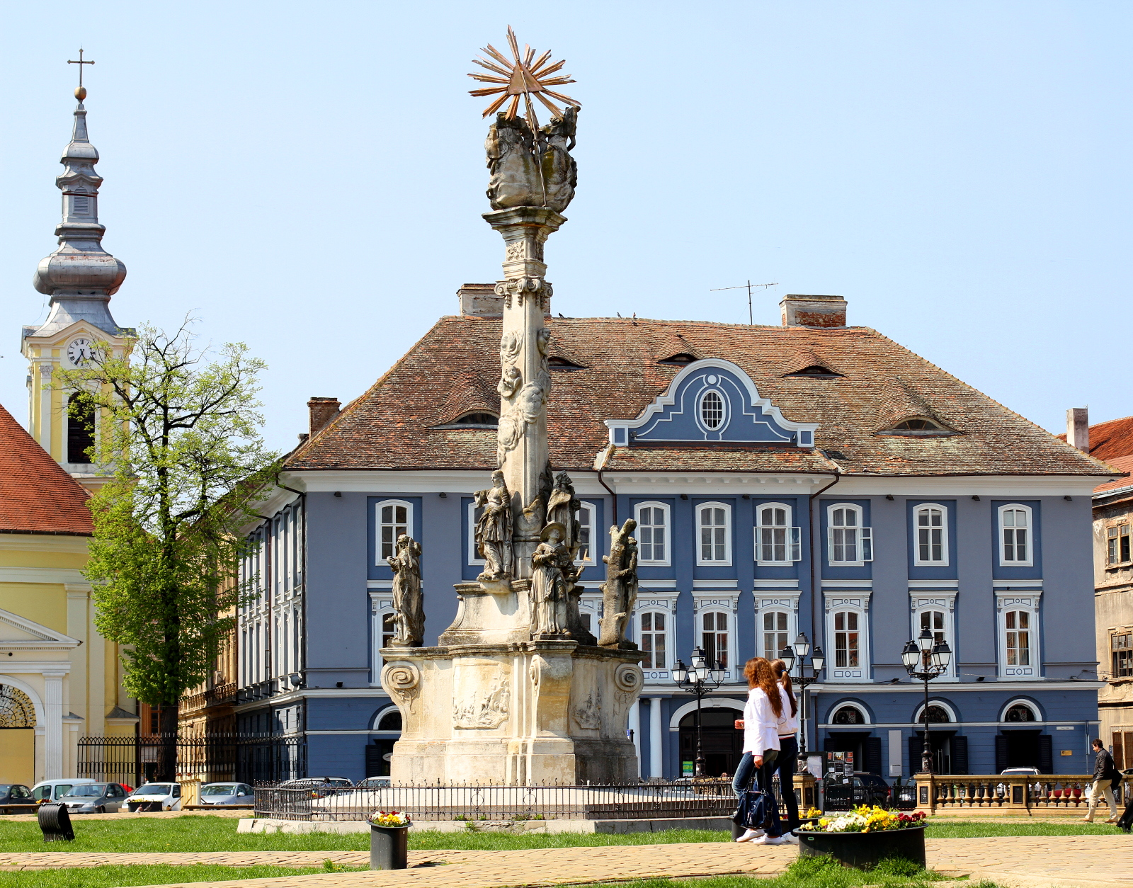 Union Square Timisoara